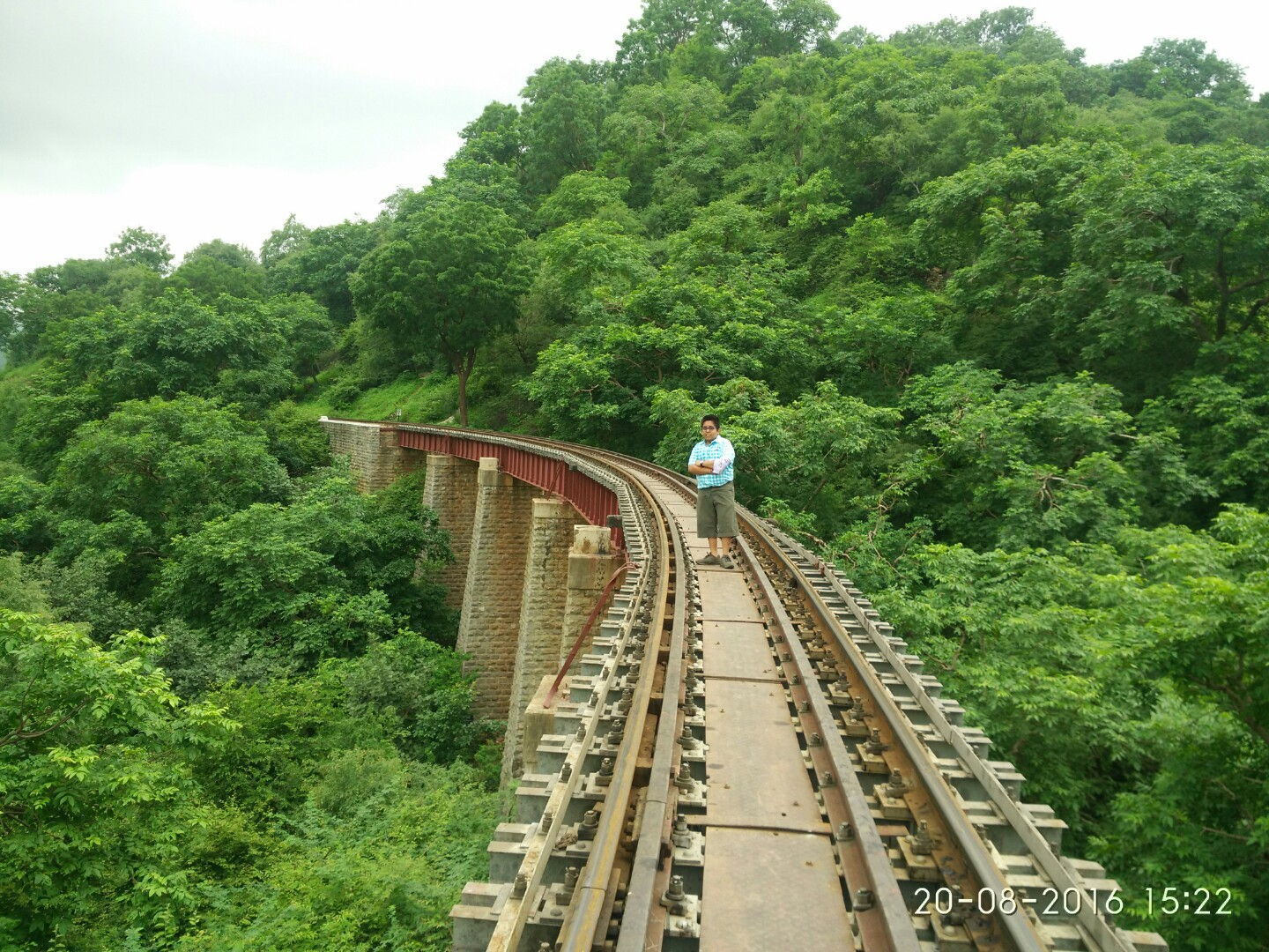 Beautiful railway track in curve at goram ghat